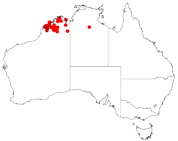 Scaevola macrostachya occurrence data downloaded from Australasian Virtual Herbarium 12 May 2019